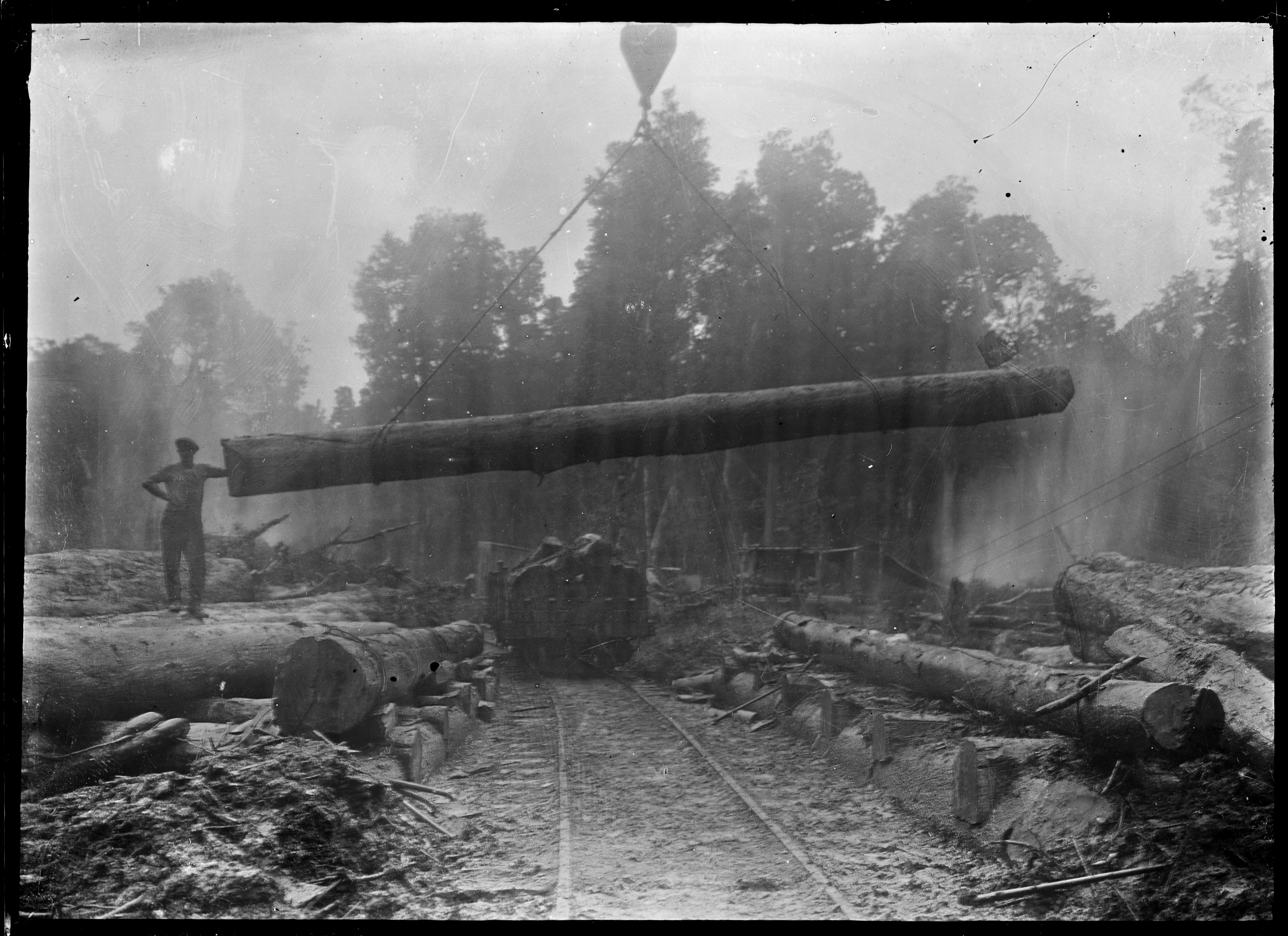 Logs being loaded onto railway wagons at Pokaka, for Crighton & Co sawmill. Photographed by Albert Percy Godber circa 1924. Place name in the Godber Album is given as Pokako, but listed in Wise's Post Office Directory as Pokaka.